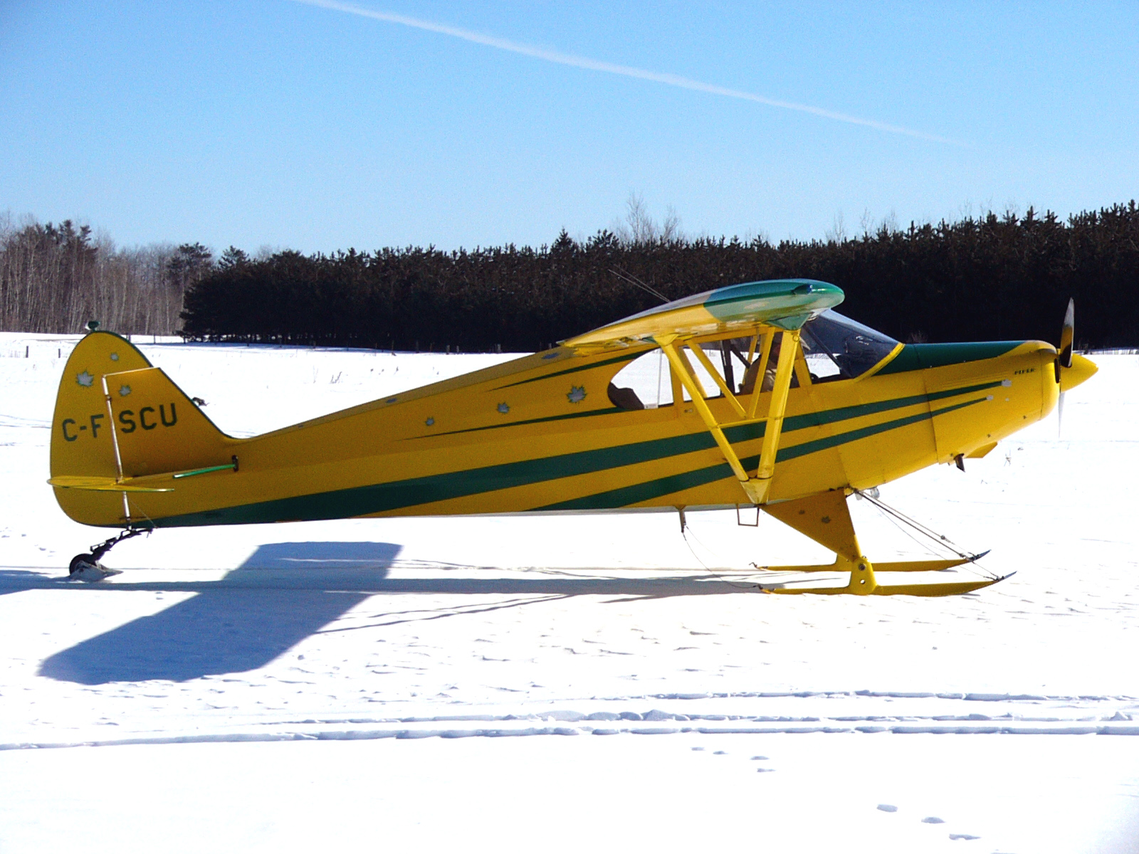 A Piper PA-12 Super Cruiser on skis at the Cobden, Ontario, Canada ski fly-in.